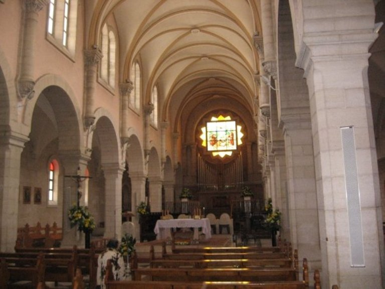 Religion in Palestine